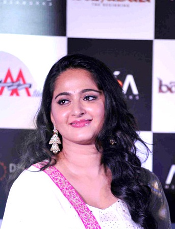 Actress Anushka Shetty at the theatrical trailer launch of the film Baahubali